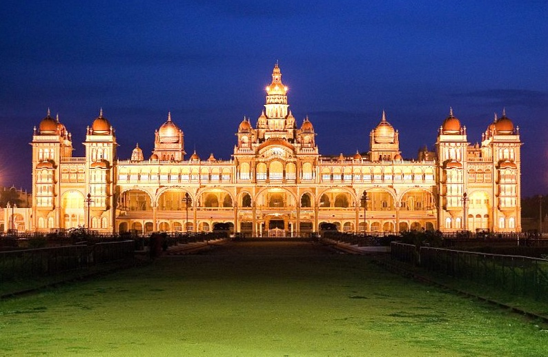 Iam in the city of palaces and this is the residence of the former royal family of Mysore . The palace has exquisite carvings and works of art from around the globe. Intricately carved doors open on to luxuriously furnished rooms. The palace is Illuminated on Sundays and looks breathtaking in the evenings